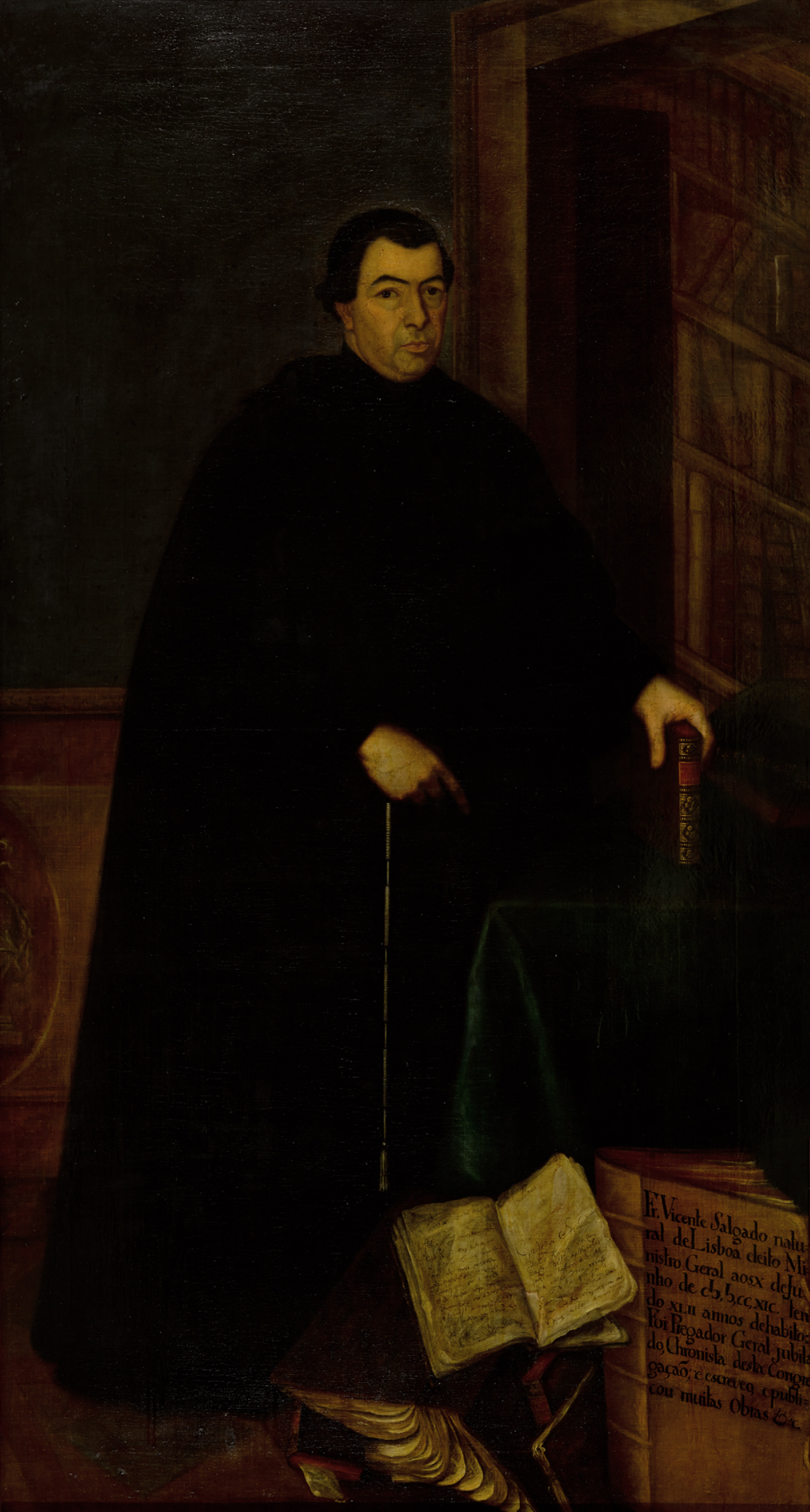 Portrait of Friar Vicente Salgado; in the collection of the Lisbon Academy of Sciences, Lisbon, Portugal.